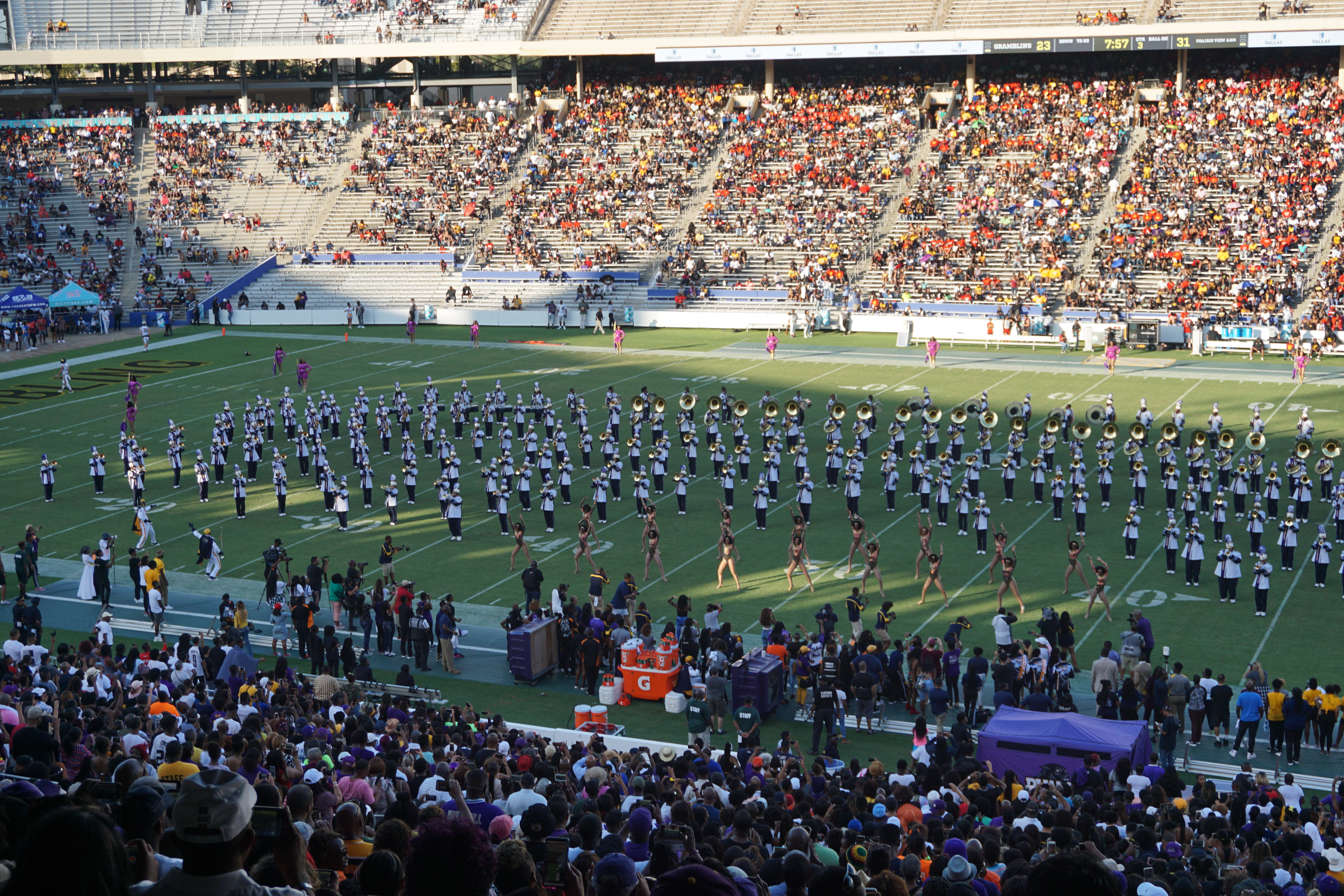 The Prairie View A&M University Marching Storm performing during halftime of the 2019 State Fair Classic (Grambling State Tigers vs. Prairie View A&M Panthers) at the Cotton Bowl in Dallas, Texas (United States). Prairie View won 42–36.